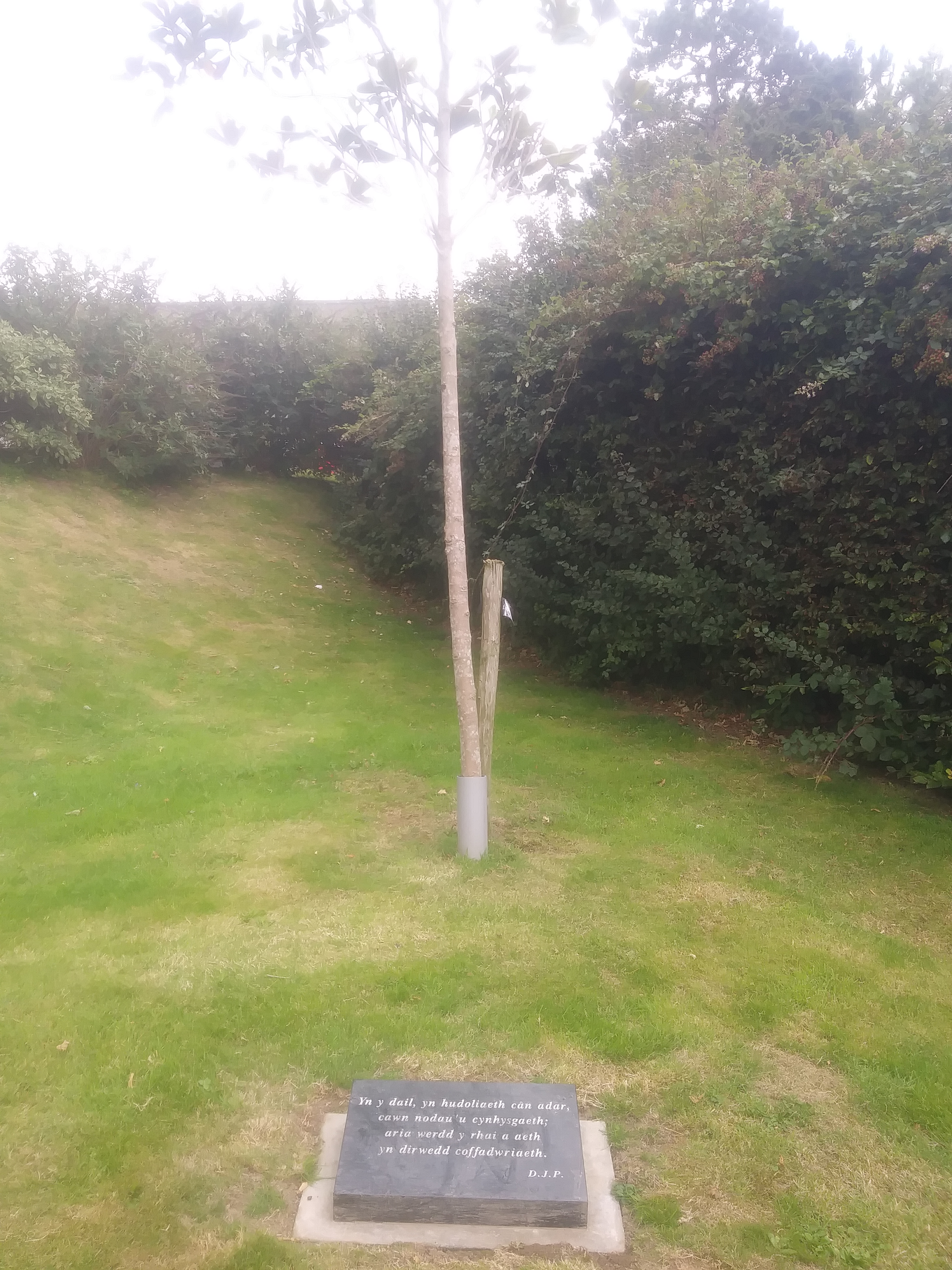 'Englyn' by Dafydd John Pritchard and remembrance tree outside National Library of Wales, Aberystwyth